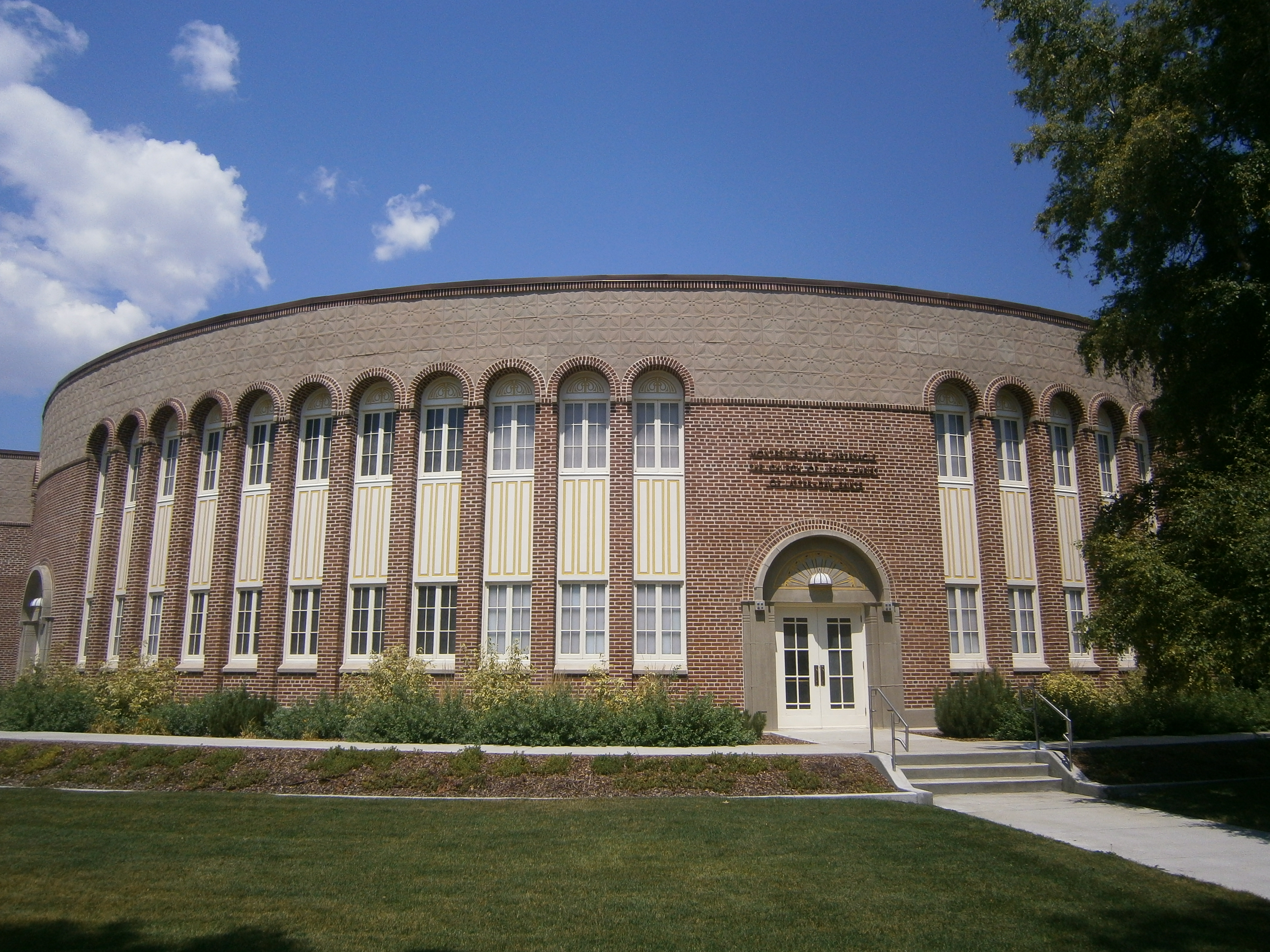 The Montpelier Stake Tabernacle, an early meetinghouse of The Church of Jesus Christ of Latter-day Saints in Montpelier, Idaho, United States. Built in 1919, it is a contributing property in the Montpelier Historic District.